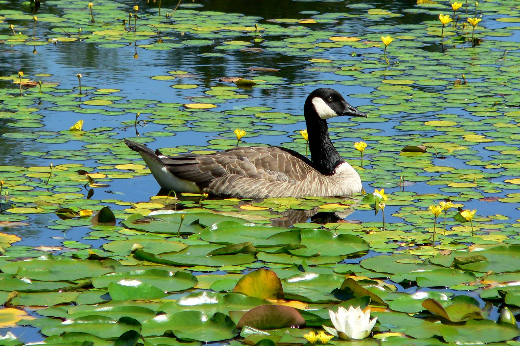 Photo of Branta canadensis (Canada Goose) at VanDusen Botanical Garden in Vancouver